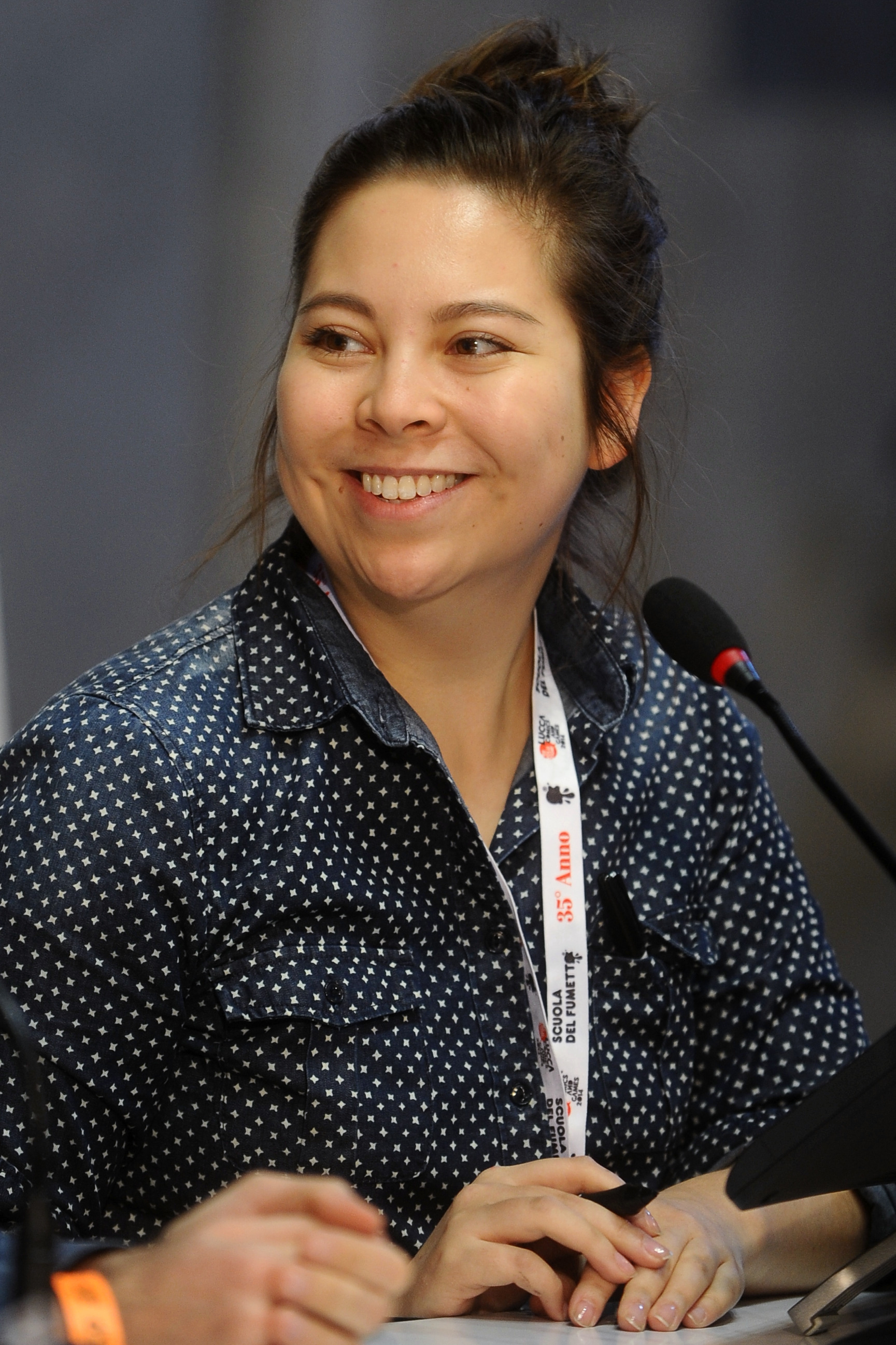 Fiona Staples at Lucca Comics & Games 2014.